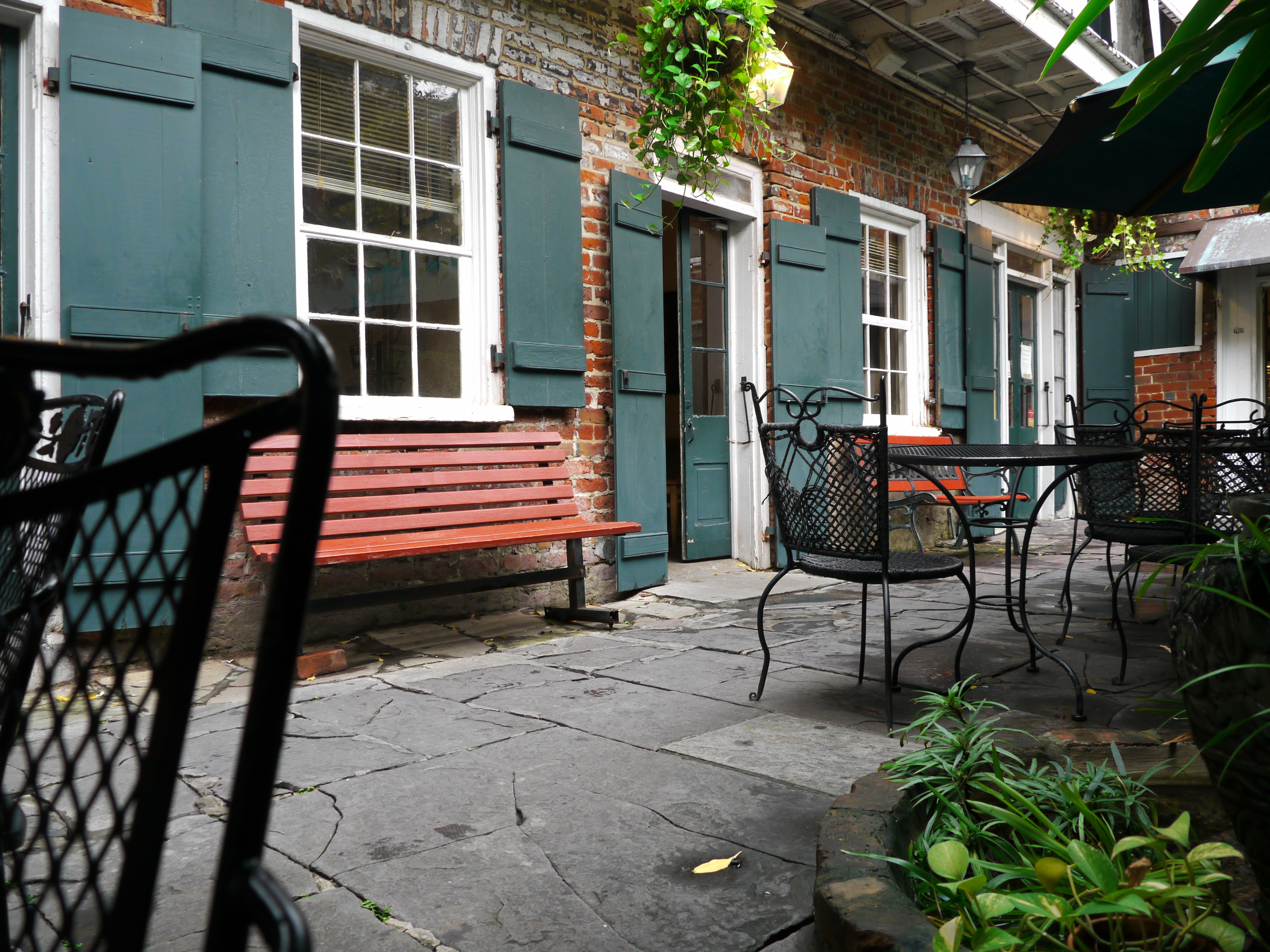 Royal Blend Coffee House Courtyard, New Orleans.